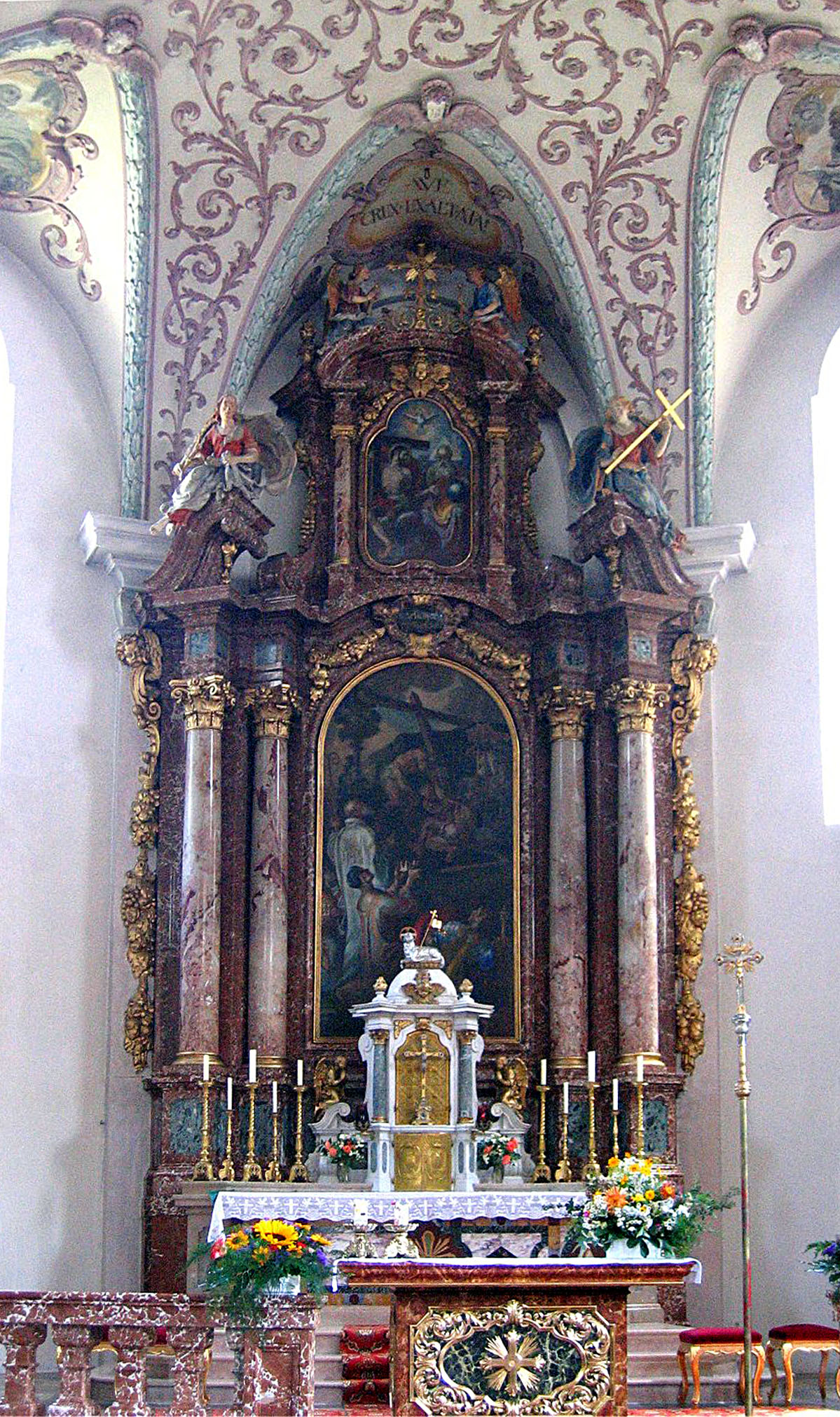 Kiefersfelden, main altar of Holy Cross new Parish Church.